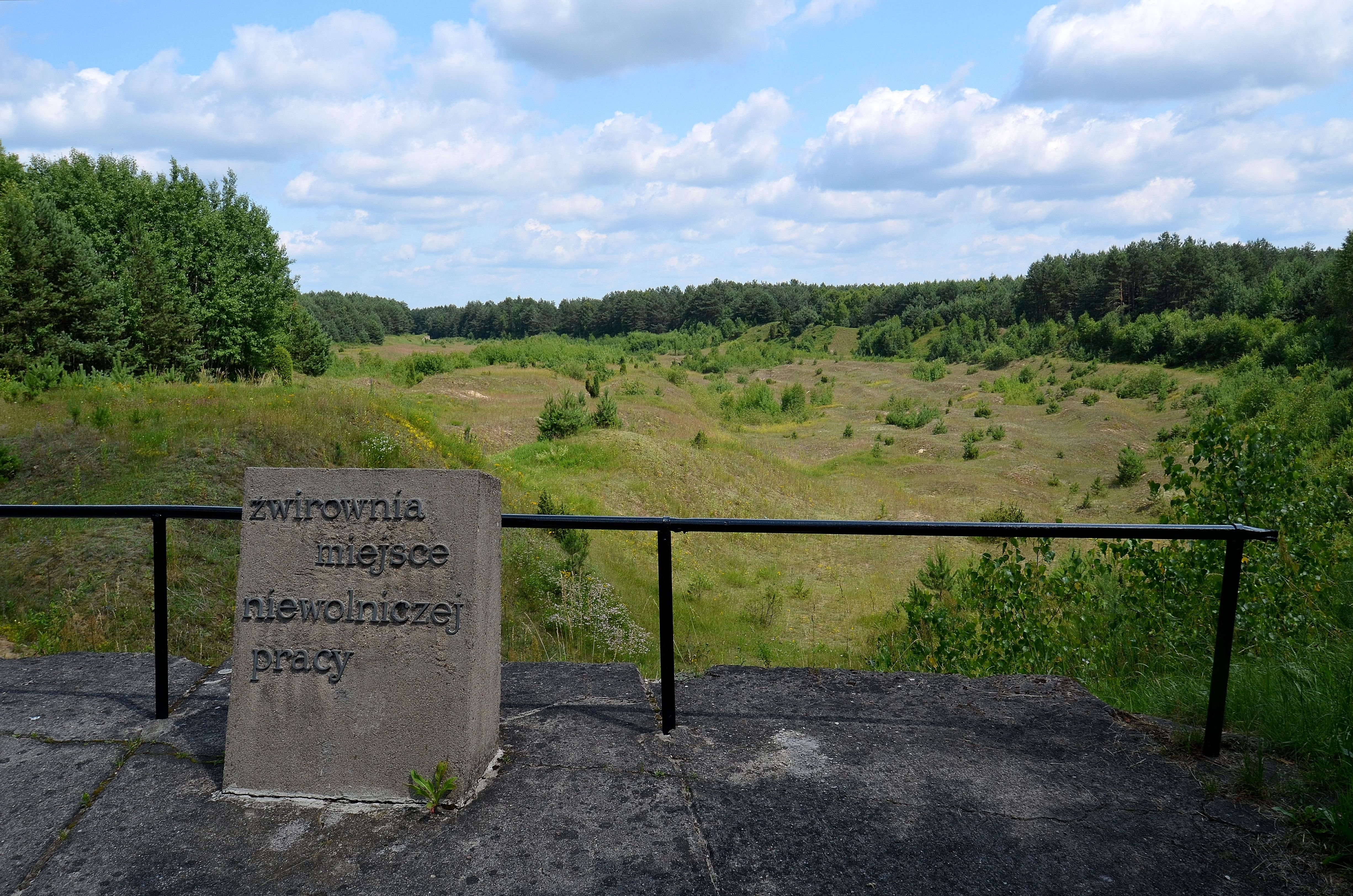 Former gravel querry - place of work for the prisoners from Treblinka I labour camp